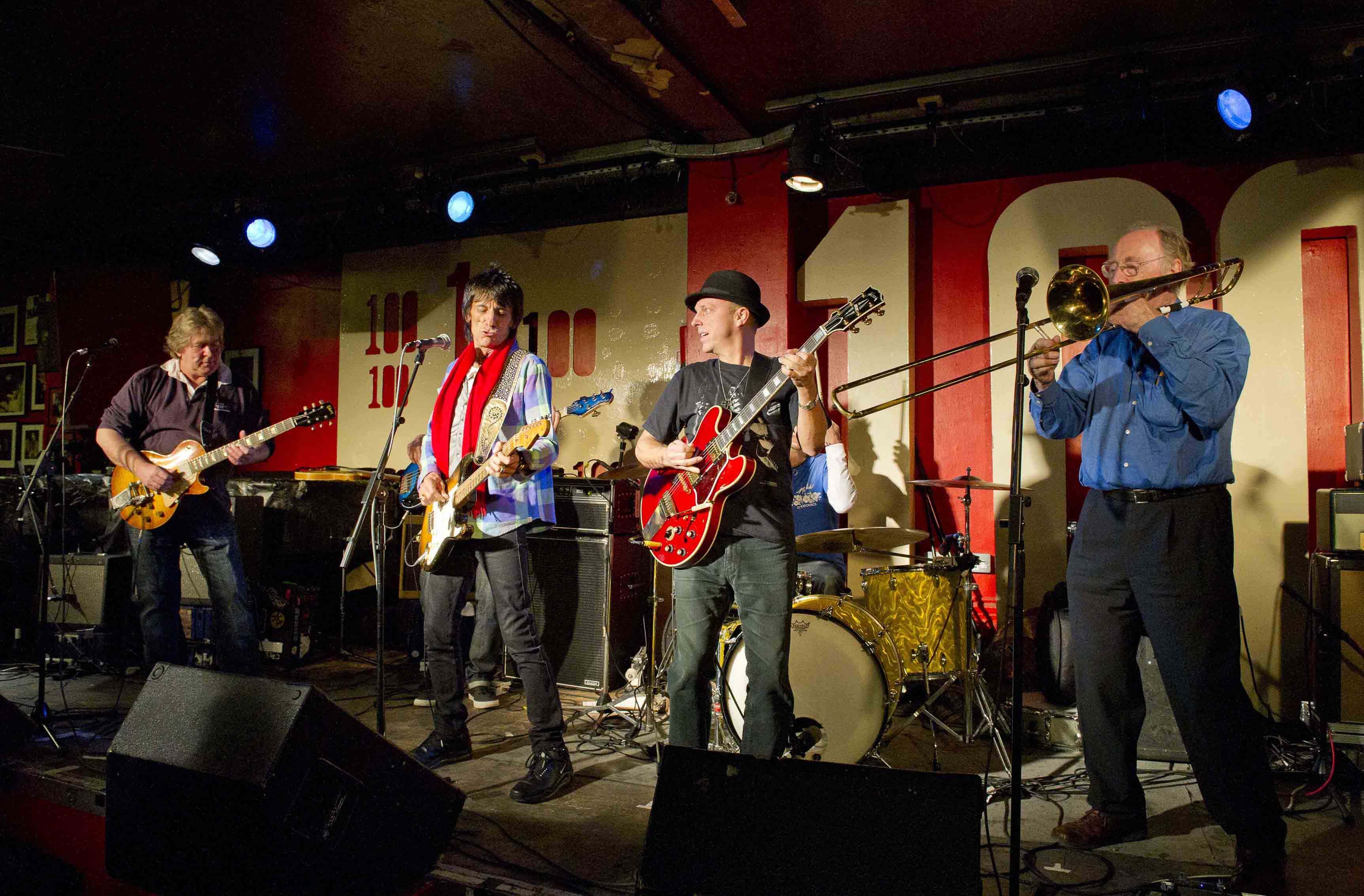 01/12/2010 OPS: Music Legends Ronnie Wood Mick Taylor and Chris Barber Join US Blues guitarist Stephen Dale Petit on stage at a benefit gig for the threatened 100 club. Taylor and Wood are both lead guitarists from the Rolling stone while Barber is known as the Grandfather of British Blues©Paul Stewart 2010 07917652636